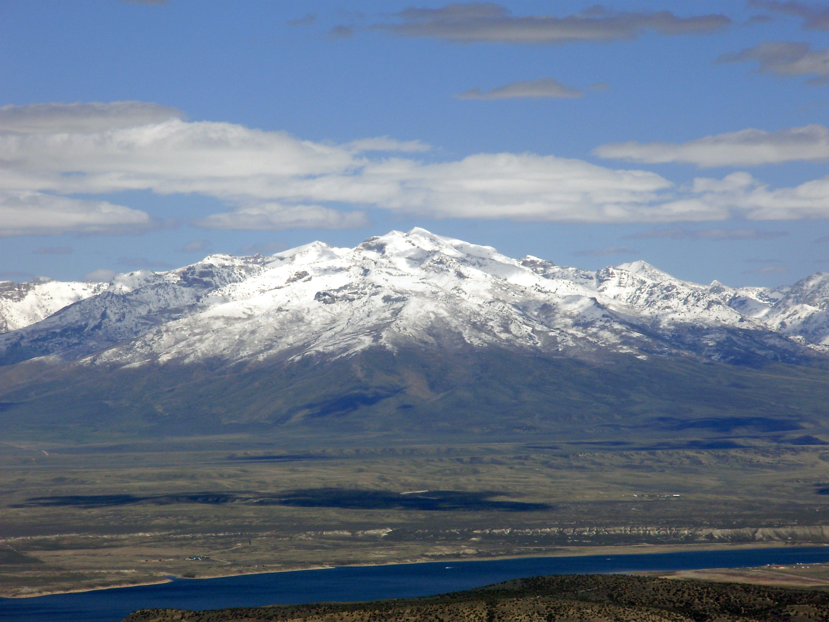 View east from Grindstone Mountain, Nevada towards Ruby Dome